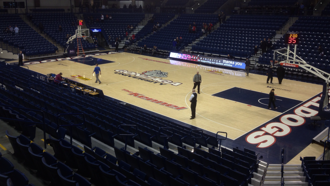 This image shows the outside of the McCarthey Athletic Center, which is home to the Gonzaga University men's and women's basketball programs.